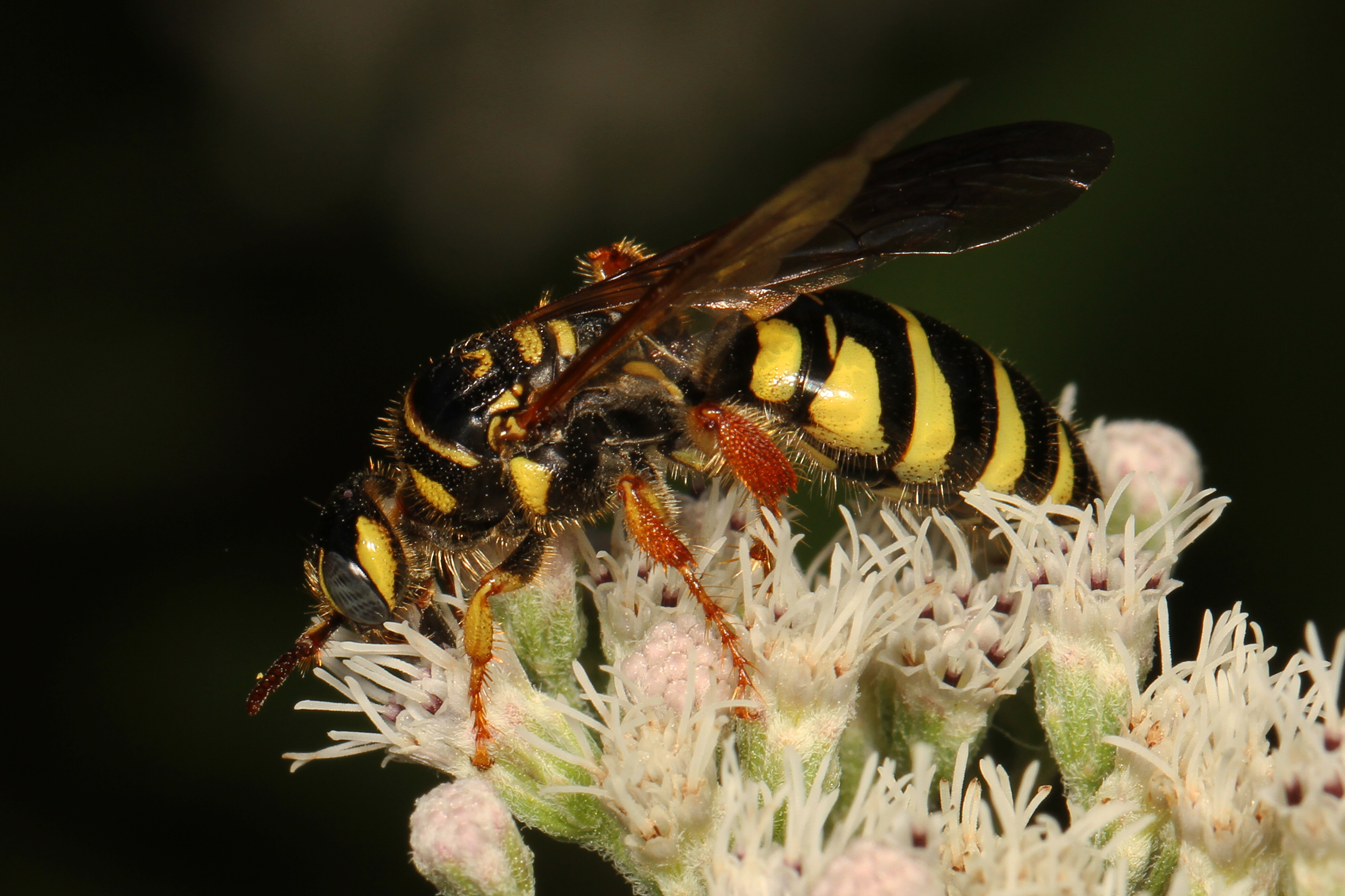 Wasp - Myzinum species, Meadowood Farm SRMA, Mason Neck, Virginia